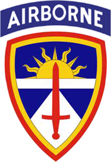 United States Army Test and Evaluation Command (ATEC) shoulder sleeve insignia with Airborne Tab, worn my the ATEC's Airborne and Special Operations Test Directorate and the Airborne Test Force